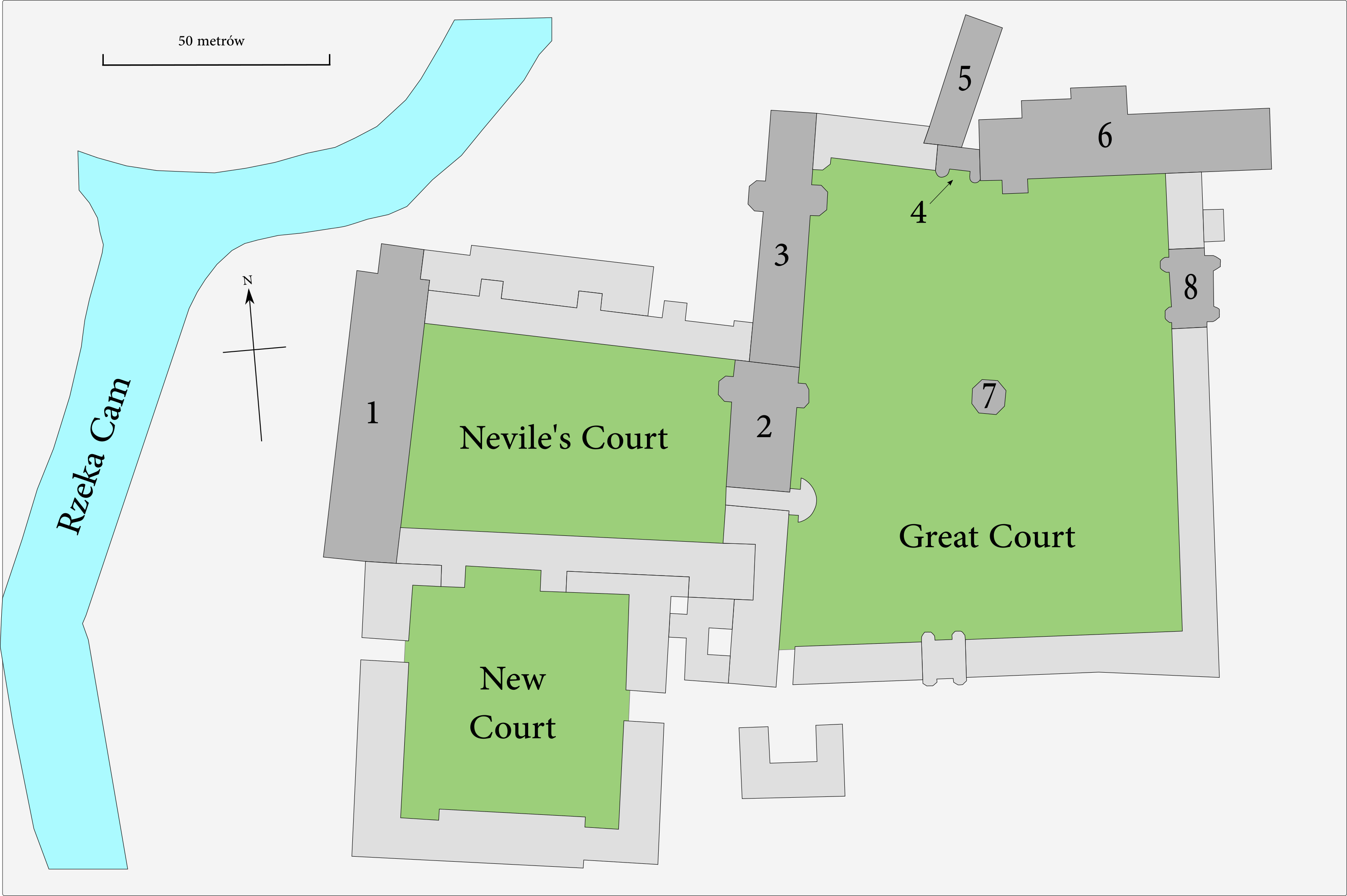 Main complex of Trinity College, Cambridge